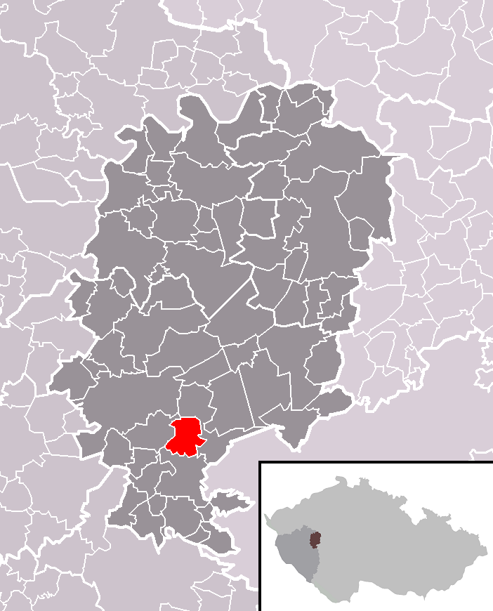 Location of Hrádek town within Rokycany District and identical administrative area of Rokycany as a Municipality with Extended Competence.